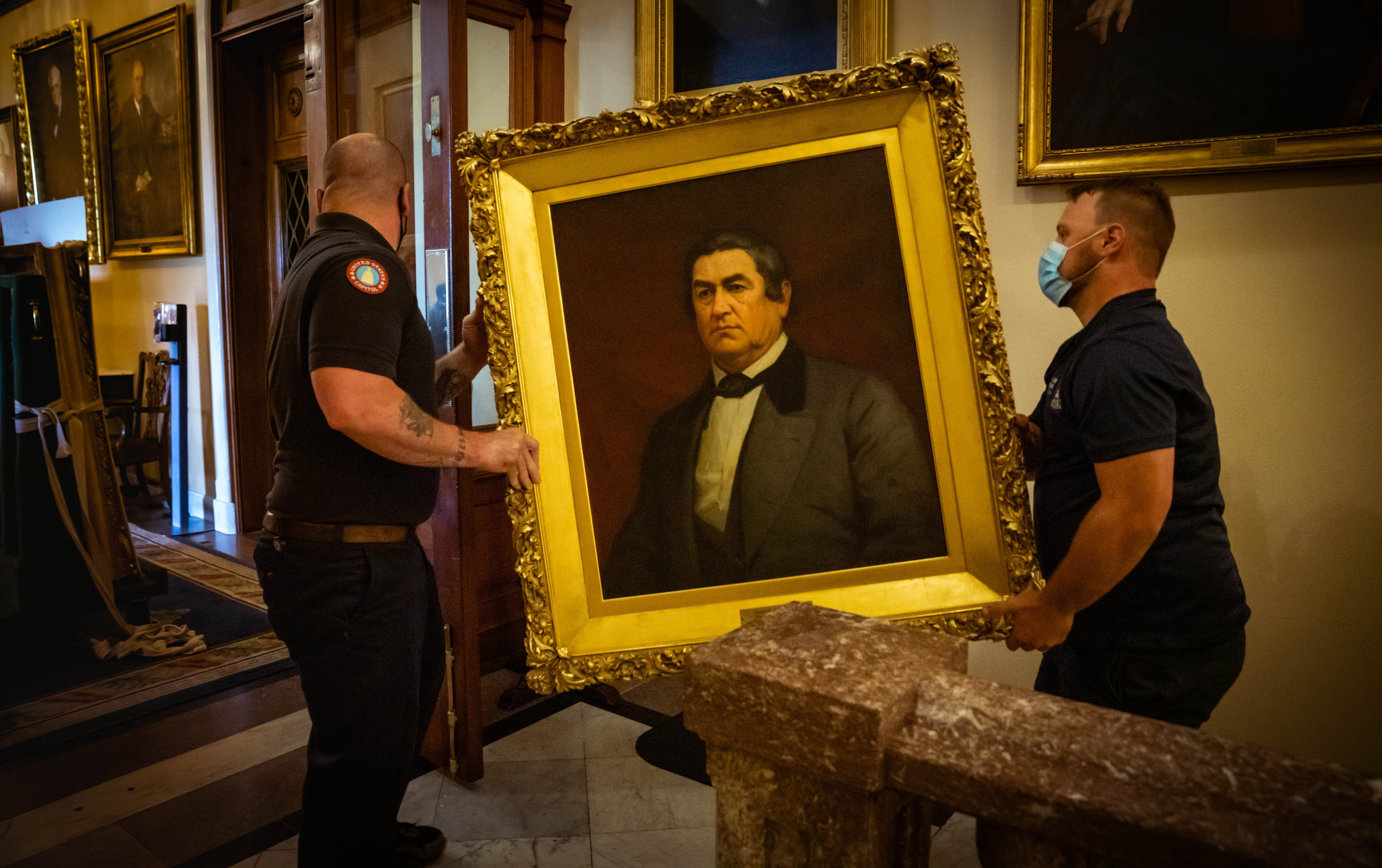 The American people have entrusted the Congress with leading our nation. Let us lead by example by removing these images from display in the People’s House.